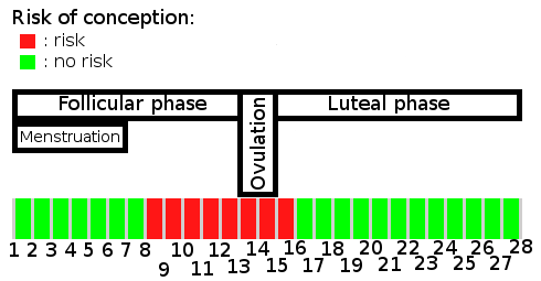 Schematic showing in which period there is a risk of conception (fertile period) and in which period there is no risk (safe period to engage in sexual intercourse). The schematic was made based on the schematic from Fertile Focus, and based on the safe period mentioned at the Understanding the female body article (namely 5 days before and 1 day after ovulation). Note that the exact time of ovulation varies between day 13 to day 15 -most ovulating at day 14 though-. As such, the fertile/unsafe period was extended to 8 days in the schematic.